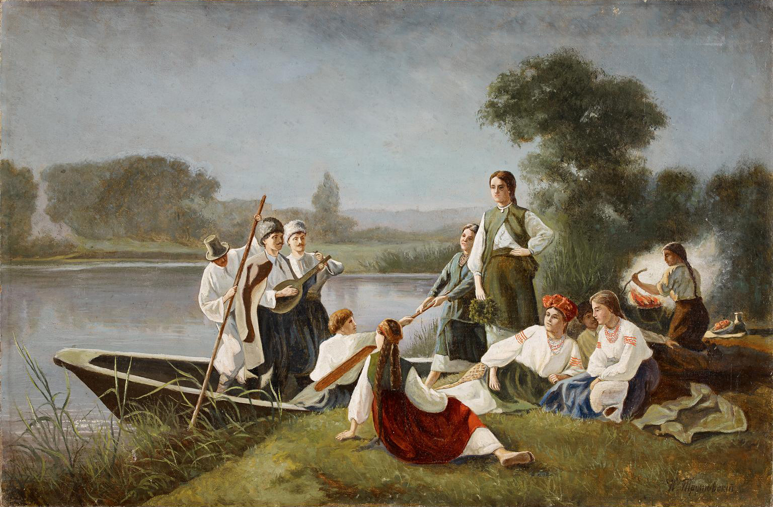 Ukranian villagers along the shore